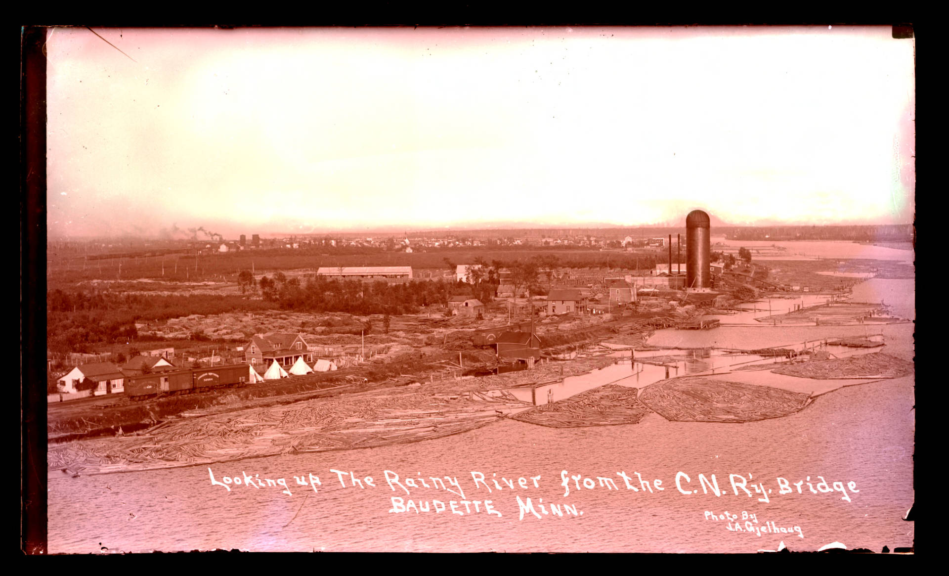 A picture of the big mill in Rainy River from the CNR railway bridge circa 1905